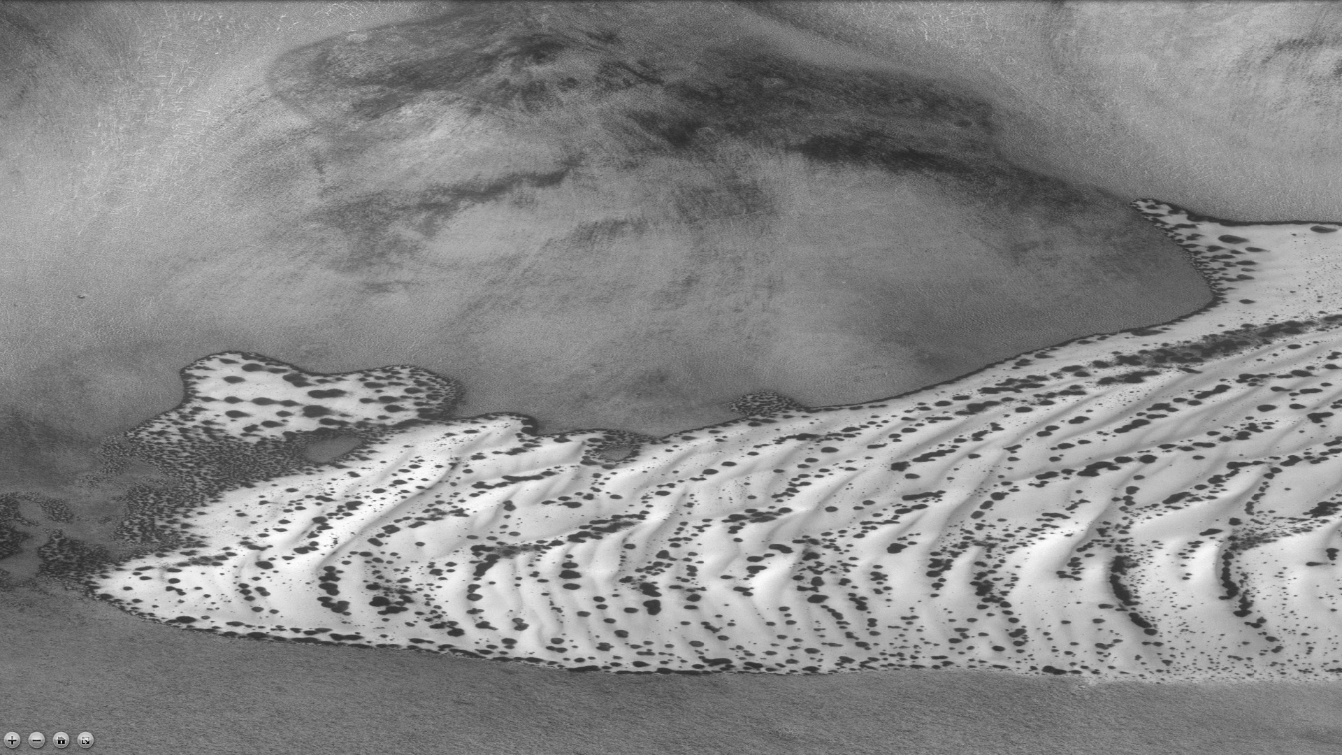 Von Karmann Crater showing dunes defrosting, as seen by ctx